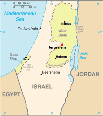 Map showing Jerusalem straddling the Green Line